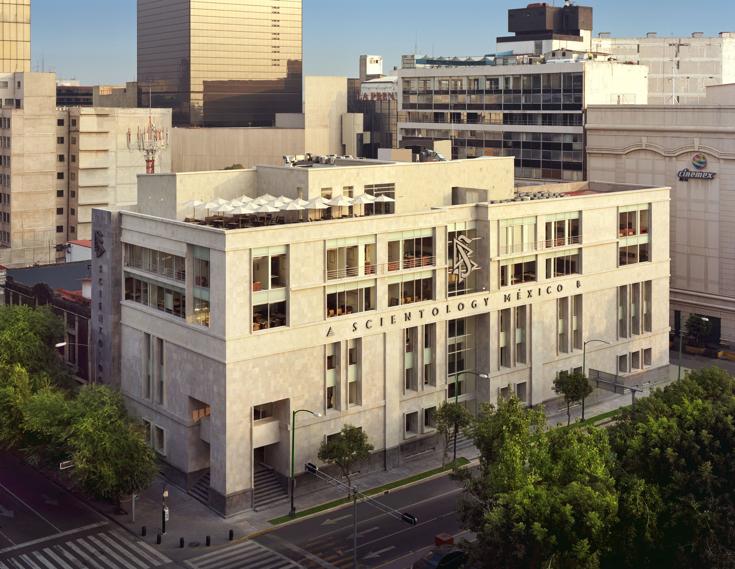 The new national Scientology Ideal Organization for Mexico stands at the heart of Mexico City directly adjacent to Mexico’s Fine Art Palace and the neighboring National Bank, Mexico’s Supreme Court and the National Palace. At six stories, the 55,000 square foot landmark building is now the largest Church of Scientology in Latin America.